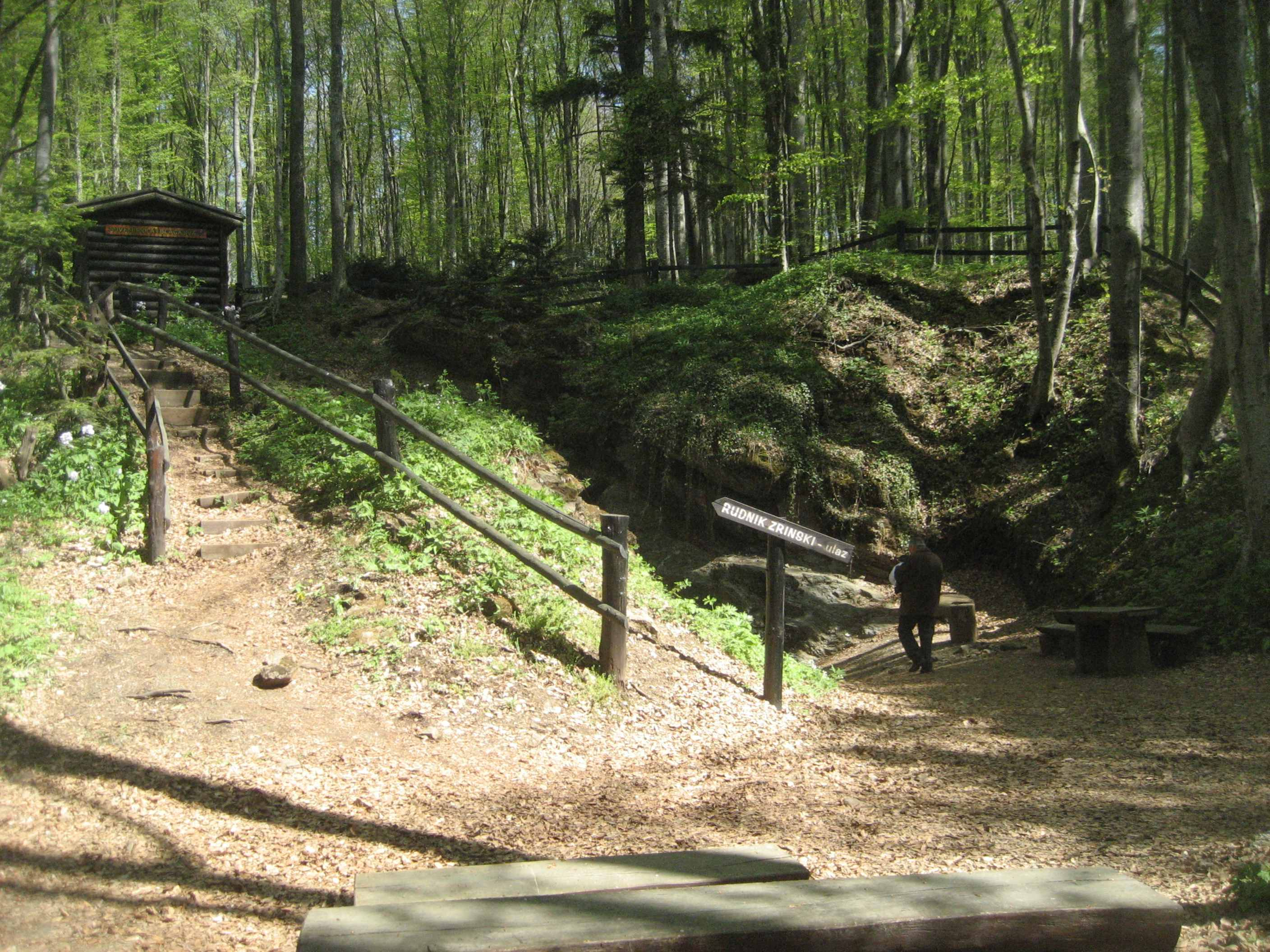 Historical Mine Zrinski, Medvednica